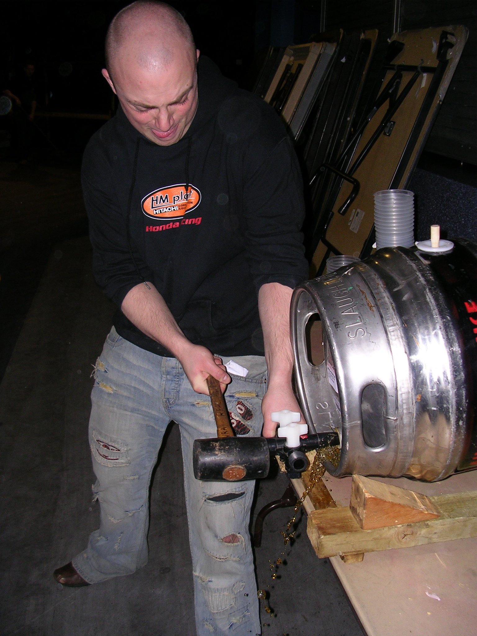 Hammering a tap into a cask of bright beer for workers to drink after setting up the Warwick University Real Ale Festival 2006.